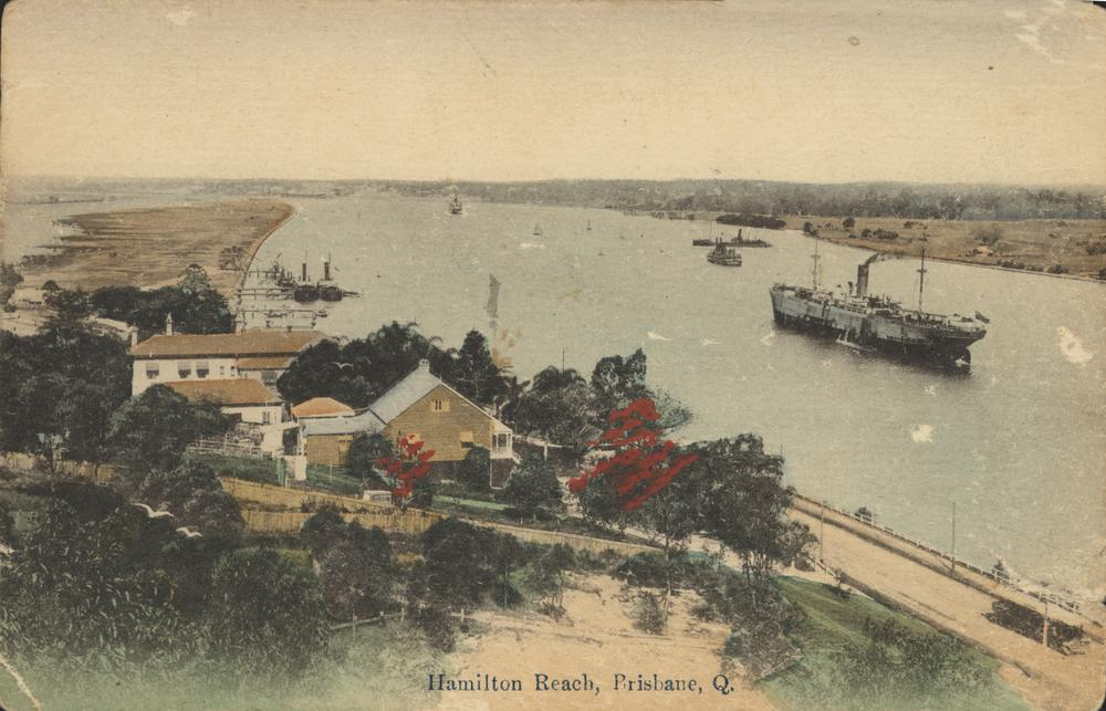 Hamilton Reach of the Brisbane River, ca. 1912. Part of the White Series of postcards.